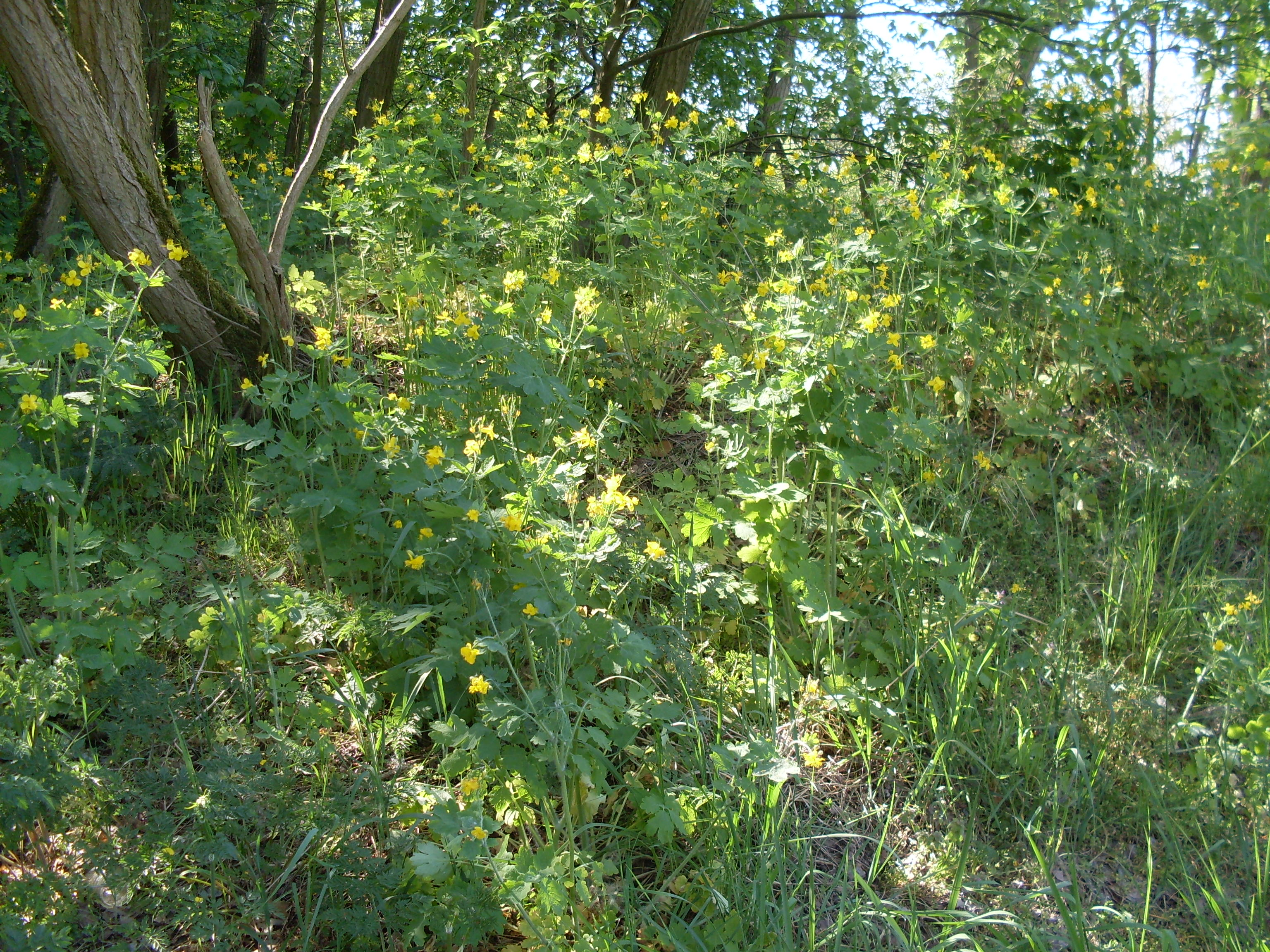 Chelidonium majus in Puszcza Wkrzańska, Police, Poland